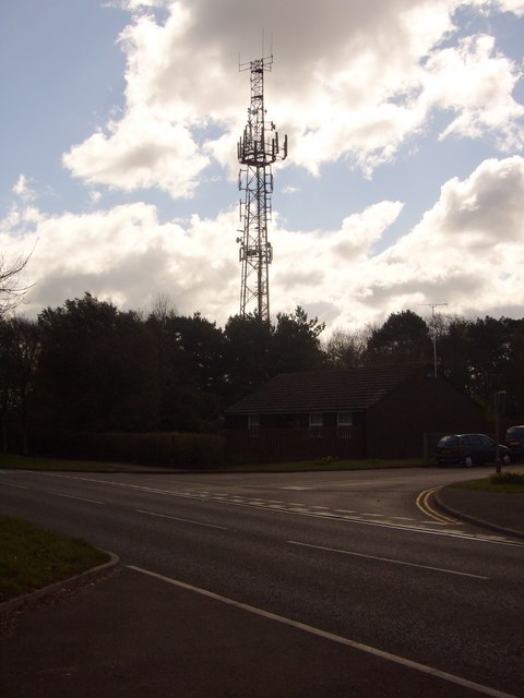 Mobile Phone Mast, Corfe Hills School.